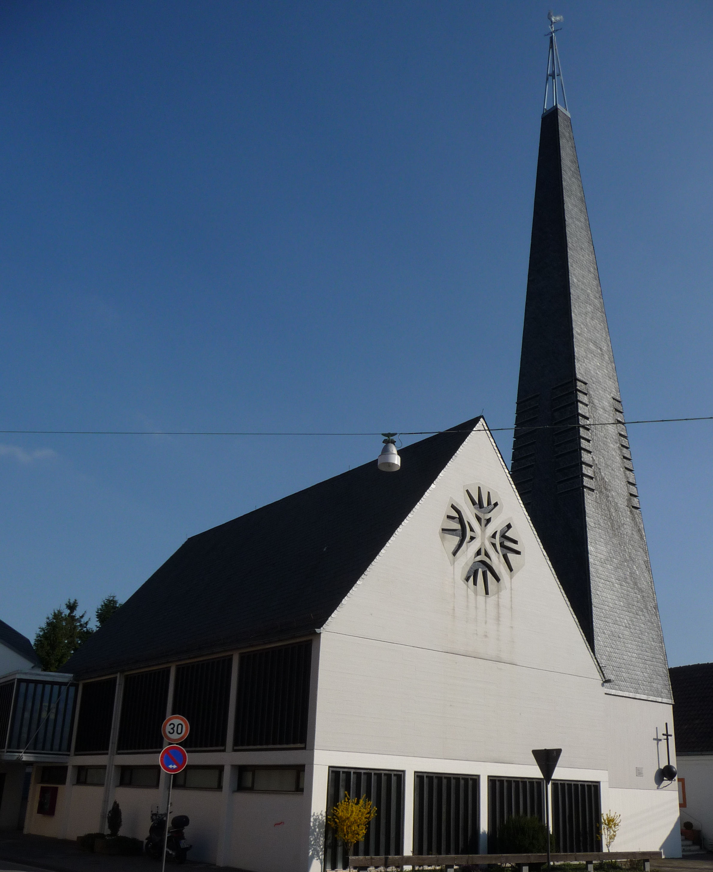 Church in Ludwigshafen, Germany